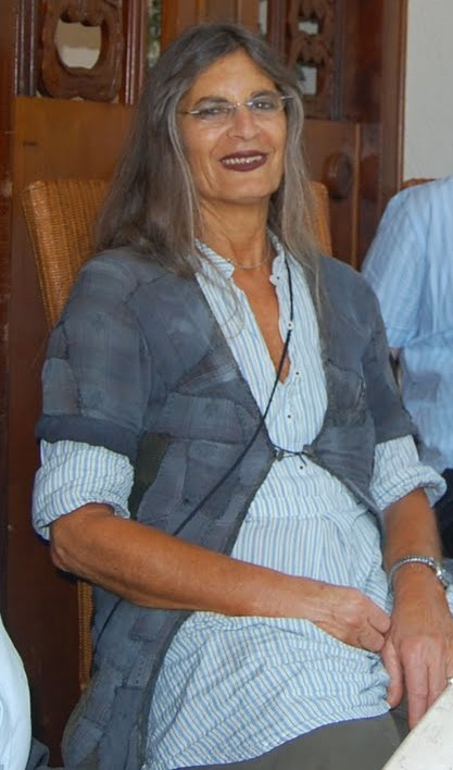 Ada Rapoport-Albert, 2011